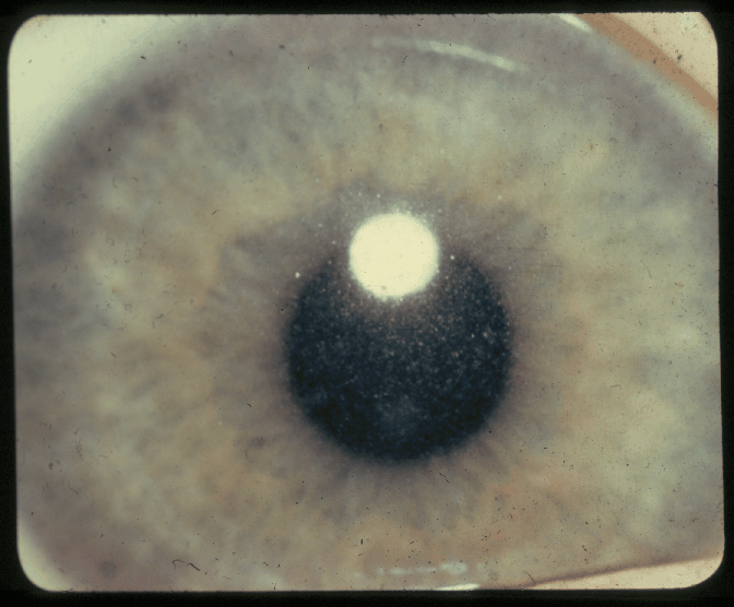 The patient was a 4 1/2-year-old male who looked about 2 1/2 years old at his first visit. He was admitted to the hospital because of poor growth and polydipsia. The patient was admitted to the hospital in uremia and coma. An examination of the cornea showed the surface and the immediate subepithelial region to be studded with golden-brown, fine scintillating particles, uniformly distributed throughout the entire cornea, but possibly sparing the most peripheral zone ([1]). The stroma appeared to be clear, but the posterior surface of the cornea showed the same type of particles in the lower nasal quadrant, although sparser than was the case on the surface. There were apparently also some crystals in the conjunctiva. The tentative diagnosis was cystinosis or Fanconi's syndrome, but unlike the other cases reported, the crystals appeared to be at the anterior and posterior surfaces and not in the stroma. The patient was seen again at age 8 years old, when he was back in the hospital. The cornea still contained crystals ([2]). The only noteworthy event in the recent history was a nosebleed of 20 hours duration. His non-protein nitrogen was 140 and he appeared very pale, but he was lively and alert. He had a persistent anemia and potassium depletion. Presumably both the anemia and the hemorrhagic diathesis were attributed to uremia. The patient died in the hospital. Noteworthy was the fact that his three siblings all showed clear corneas without crystals. However, the youngest was age three months and when she was examined again at age two years, she had abundant crystals and nephropathic cystinosis.